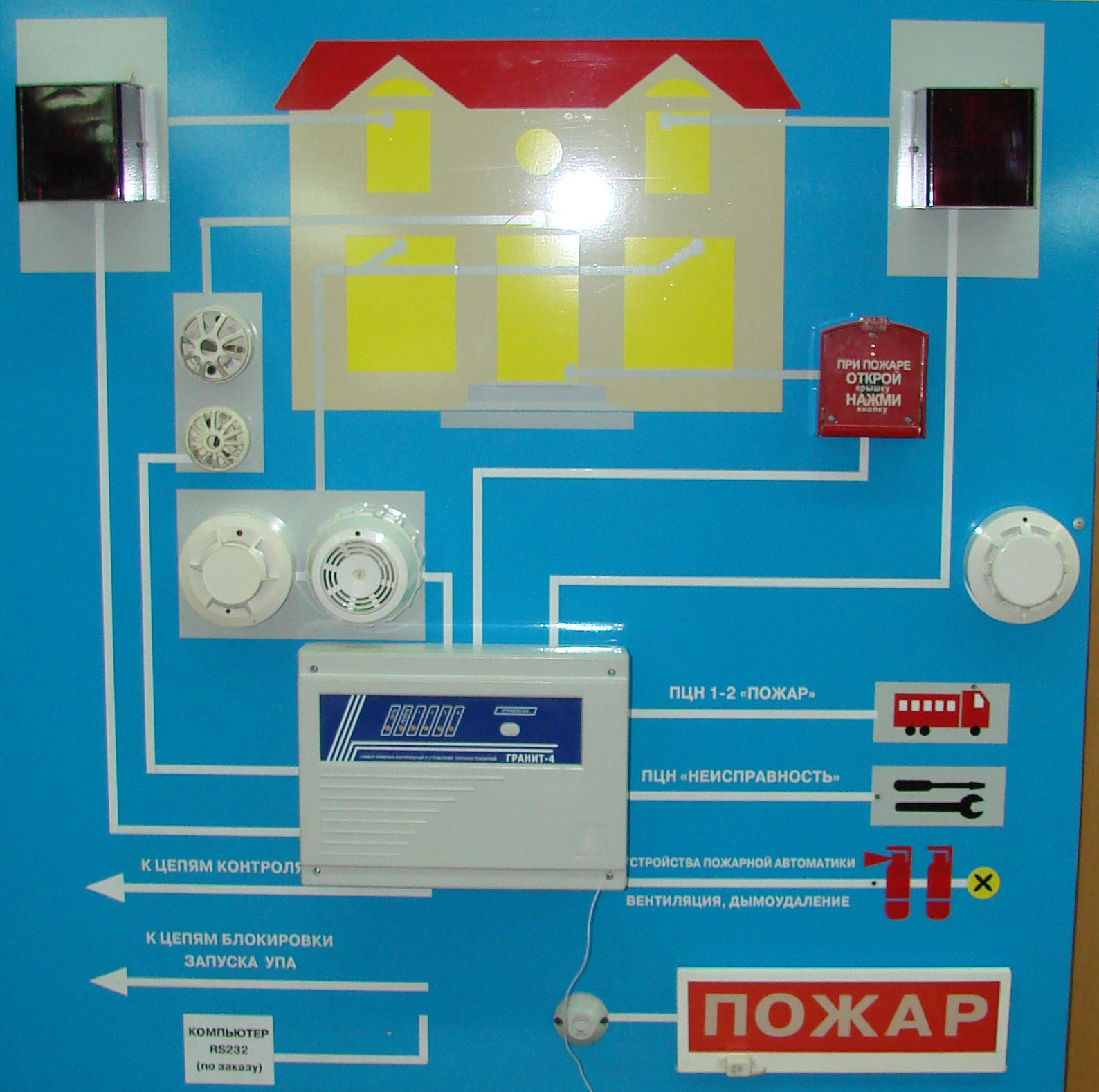 Russia, Vologda firefighting museum, Fire alarm system (stand-circuit)